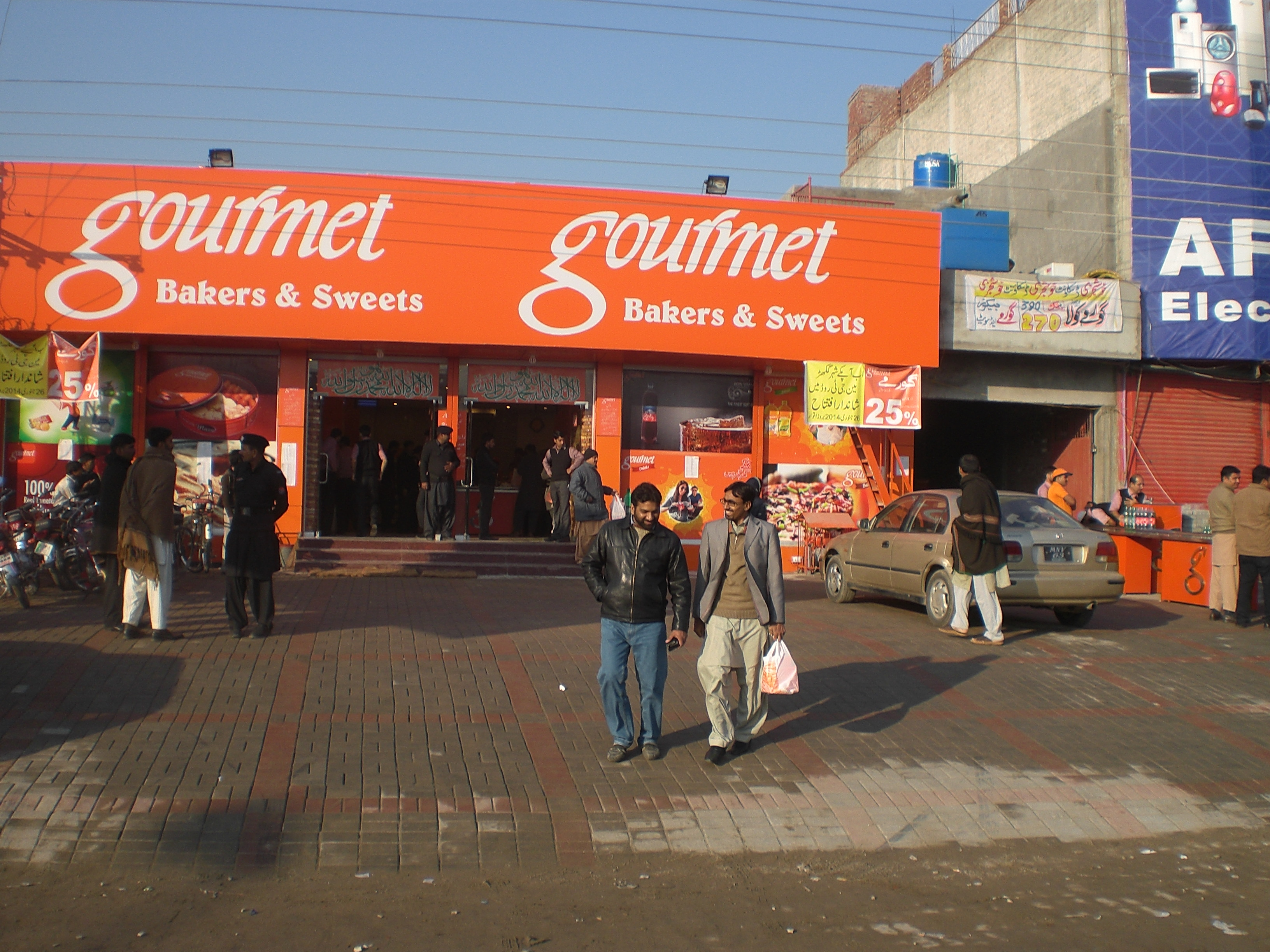 Gourmet Bakers and Sweets, Gakhar Mandi, Pakistan